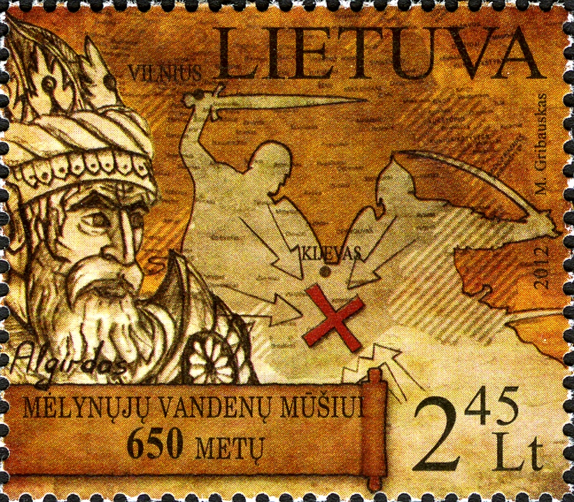 Stamps of Lithuania, 2012